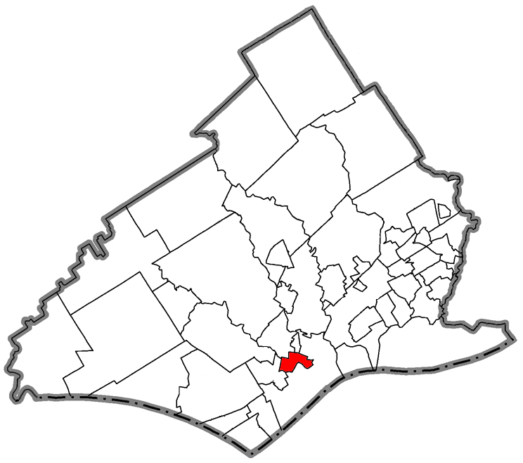 Showing the location within Delaware County, Pennsylvania.